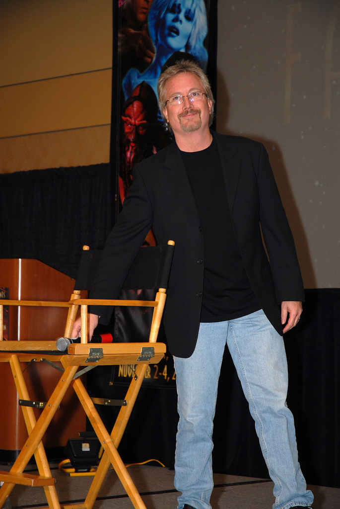 Rockne S. O'Bannon, Farscape Convention, Burbank, California, November, 2007